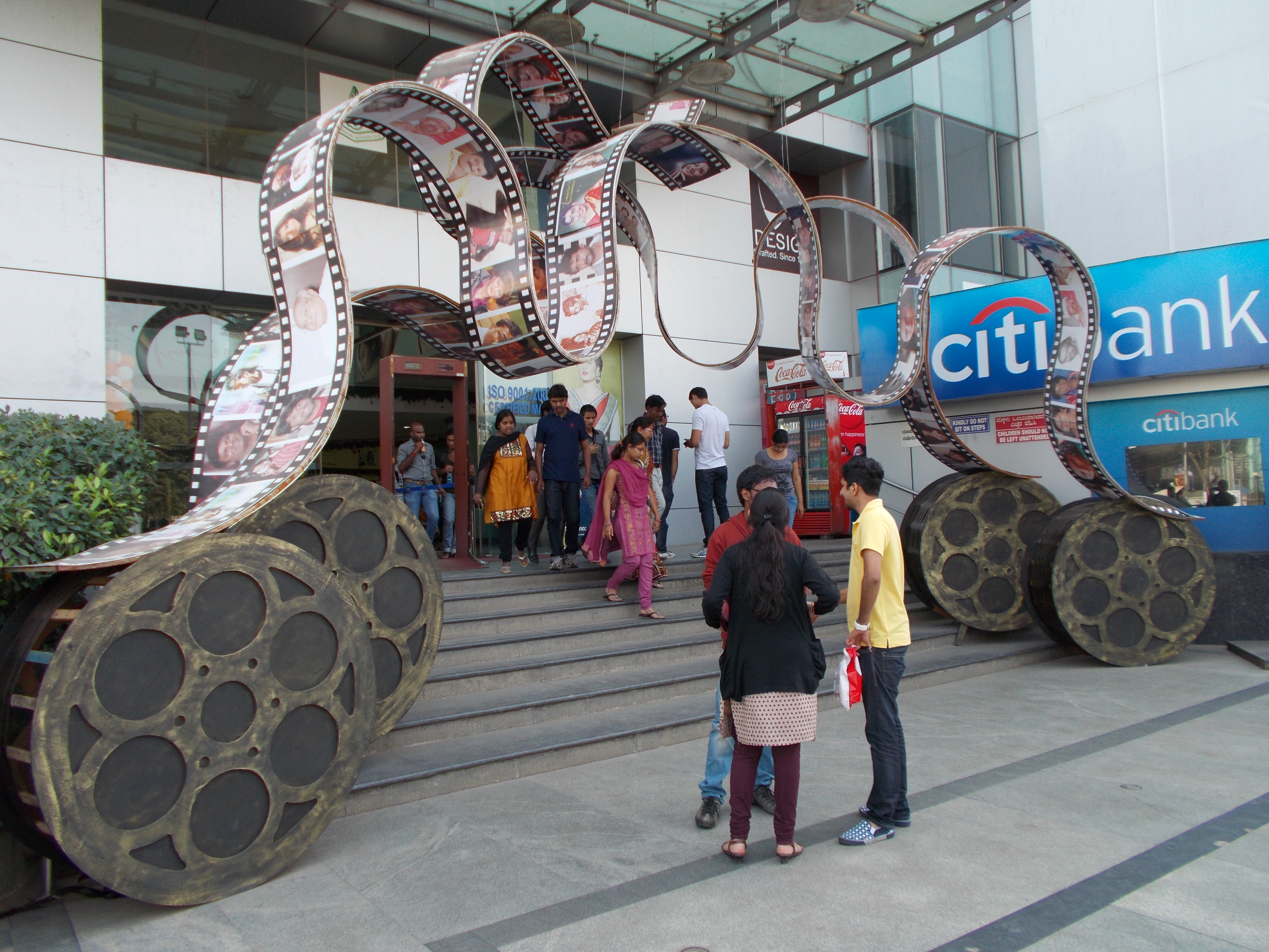 Garuda Mall on MG Road, Bangalore celebrates 100 years of Indian Cinema. Reelboxes established at the entrance.